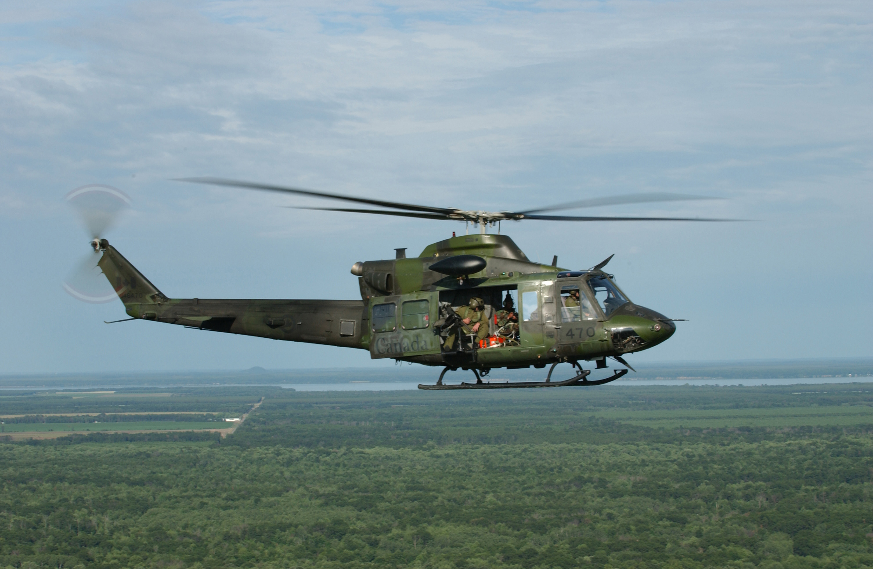 A Canadian CH-146 Griffon helicopter from the 430th Helicopter Squadron flies over Wisconsin July 16, 2006, during Patriot 2006. Patriot increases the war-fighting capabilities of the National Guard, reserve, and active components of the Air Force and Army. Additionally, Canadian, United Kingdom, and Dutch forces are participating, increasing combined effectiveness.